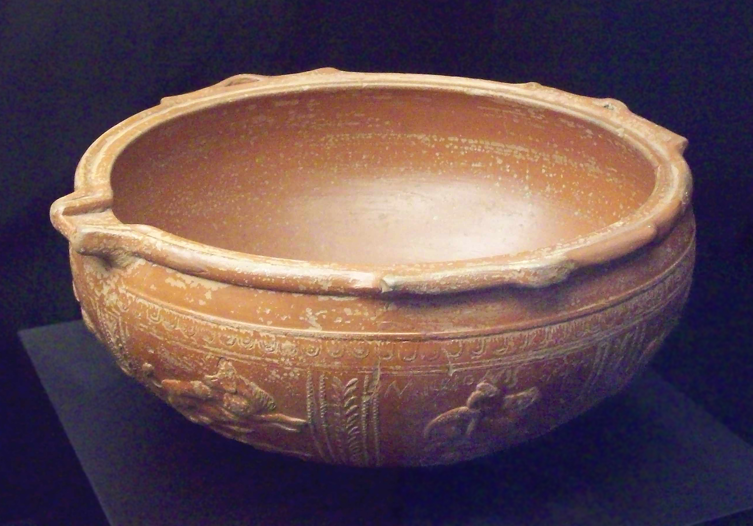 Bowl of Terra Sigillata Hispanica. Typology: Hayes 132.